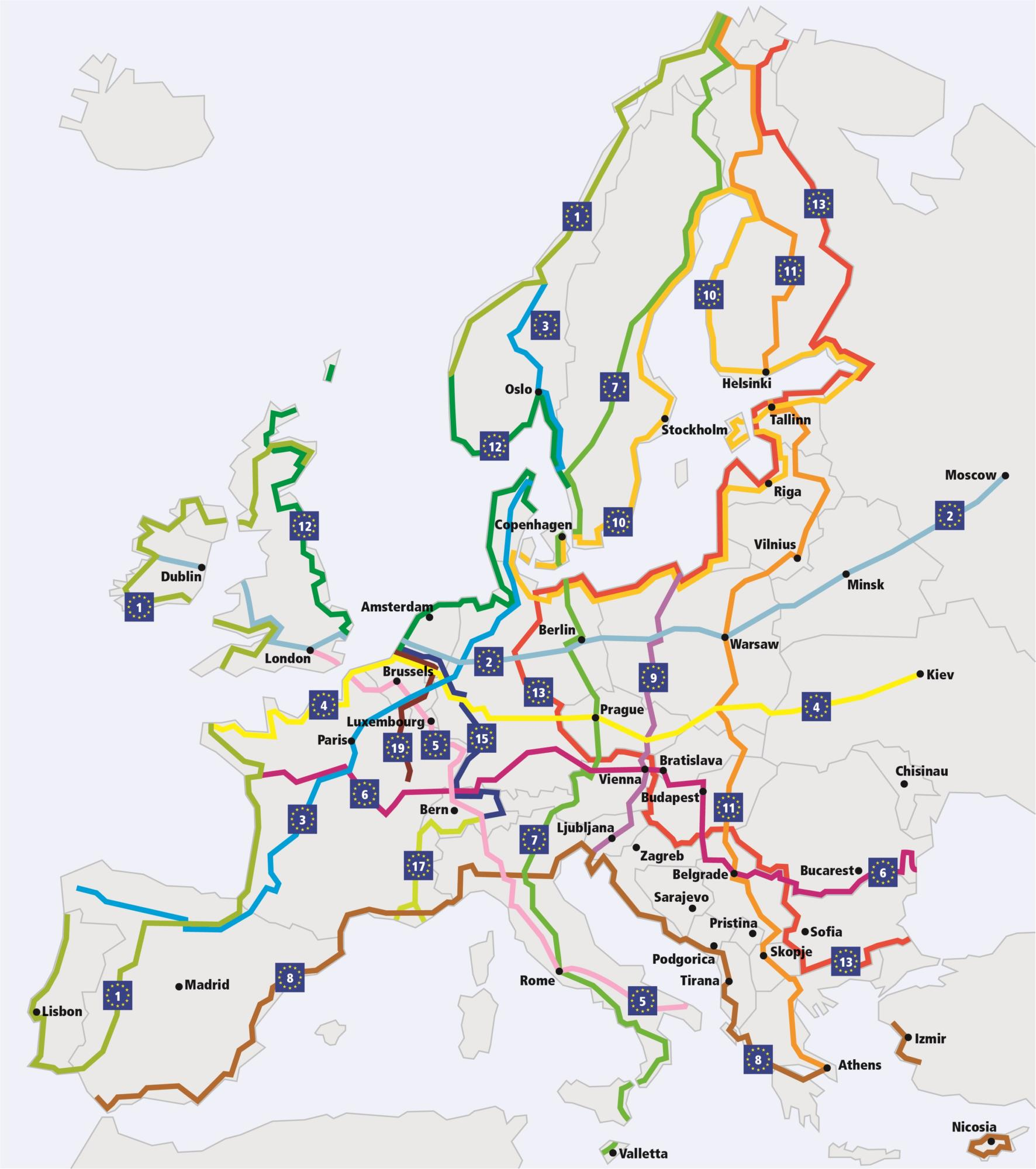 EuroVelo Schematic Diagram as of 2019